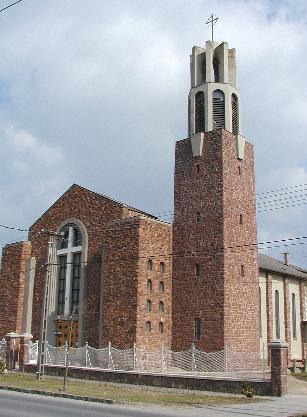 Balatonlelle, Roman Catholic Parish Church (built in 1943 after a project by Bertalan Árkay).